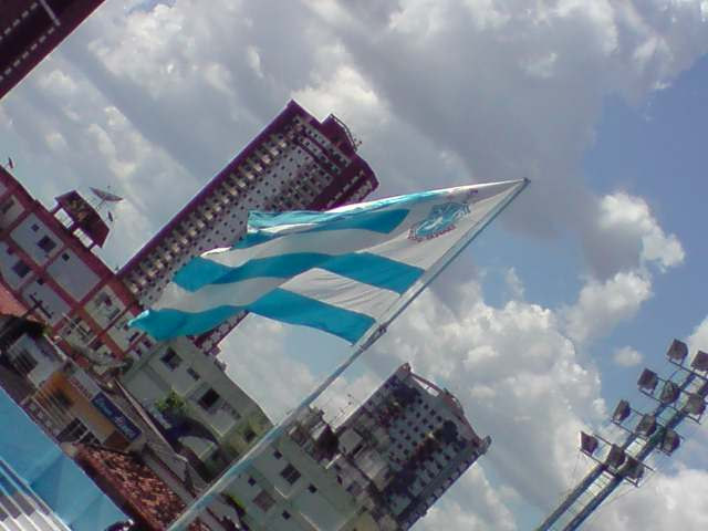 Paysandu's Flag